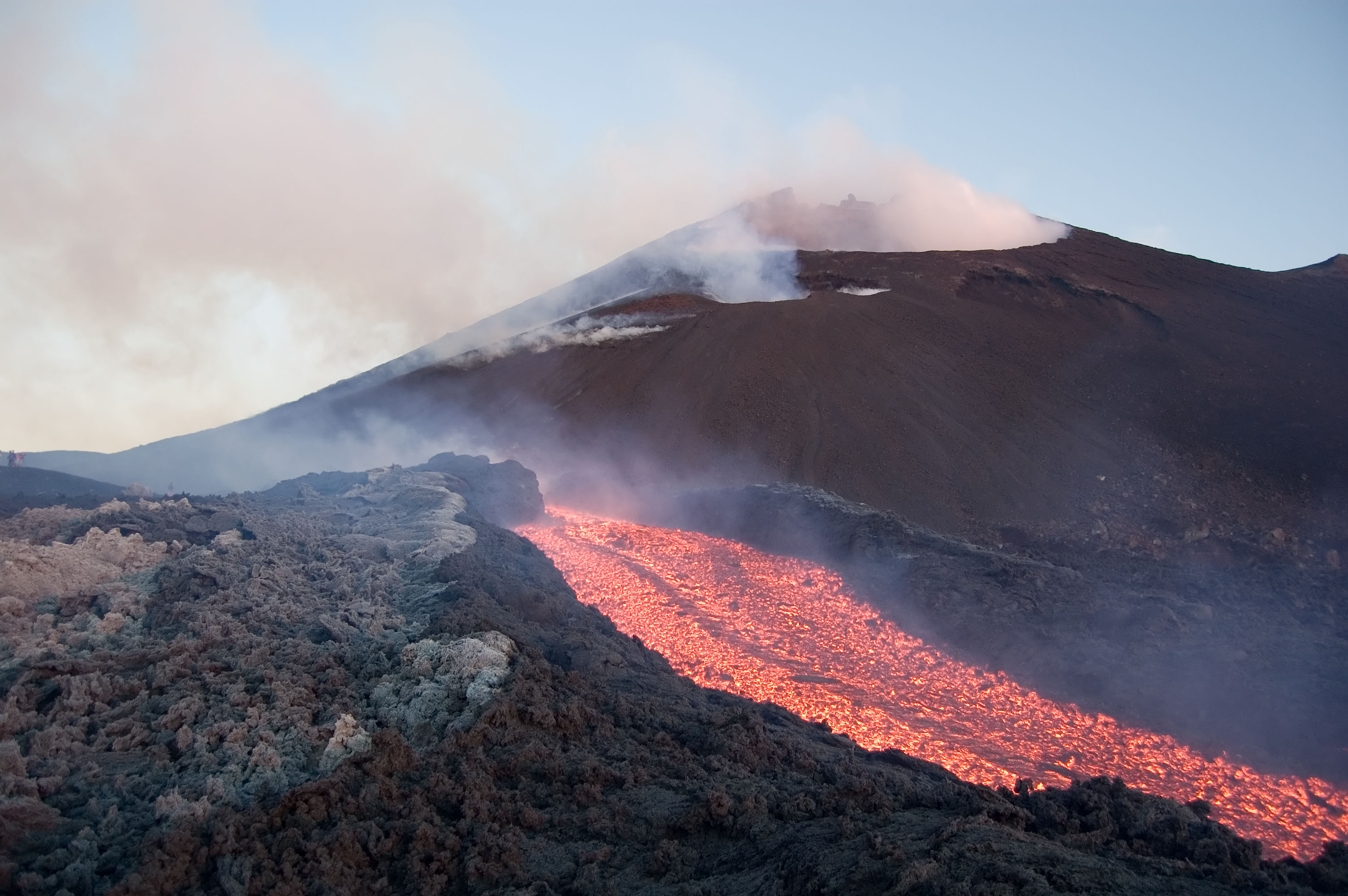 Volcano Etna (Sicily, Italy) during an eruption